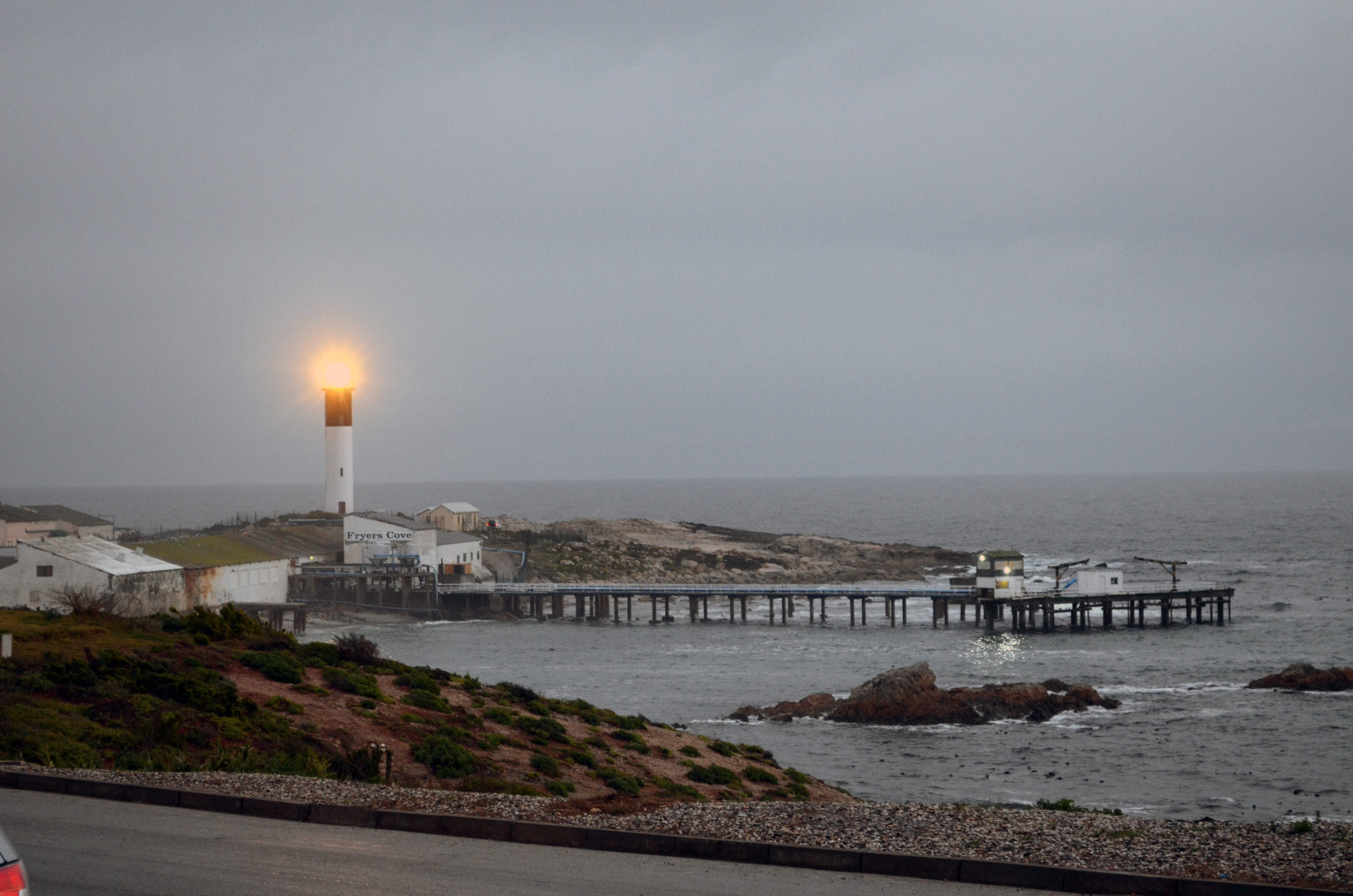 The lighthouse in Doringbaai, Western Cape, South Africa.